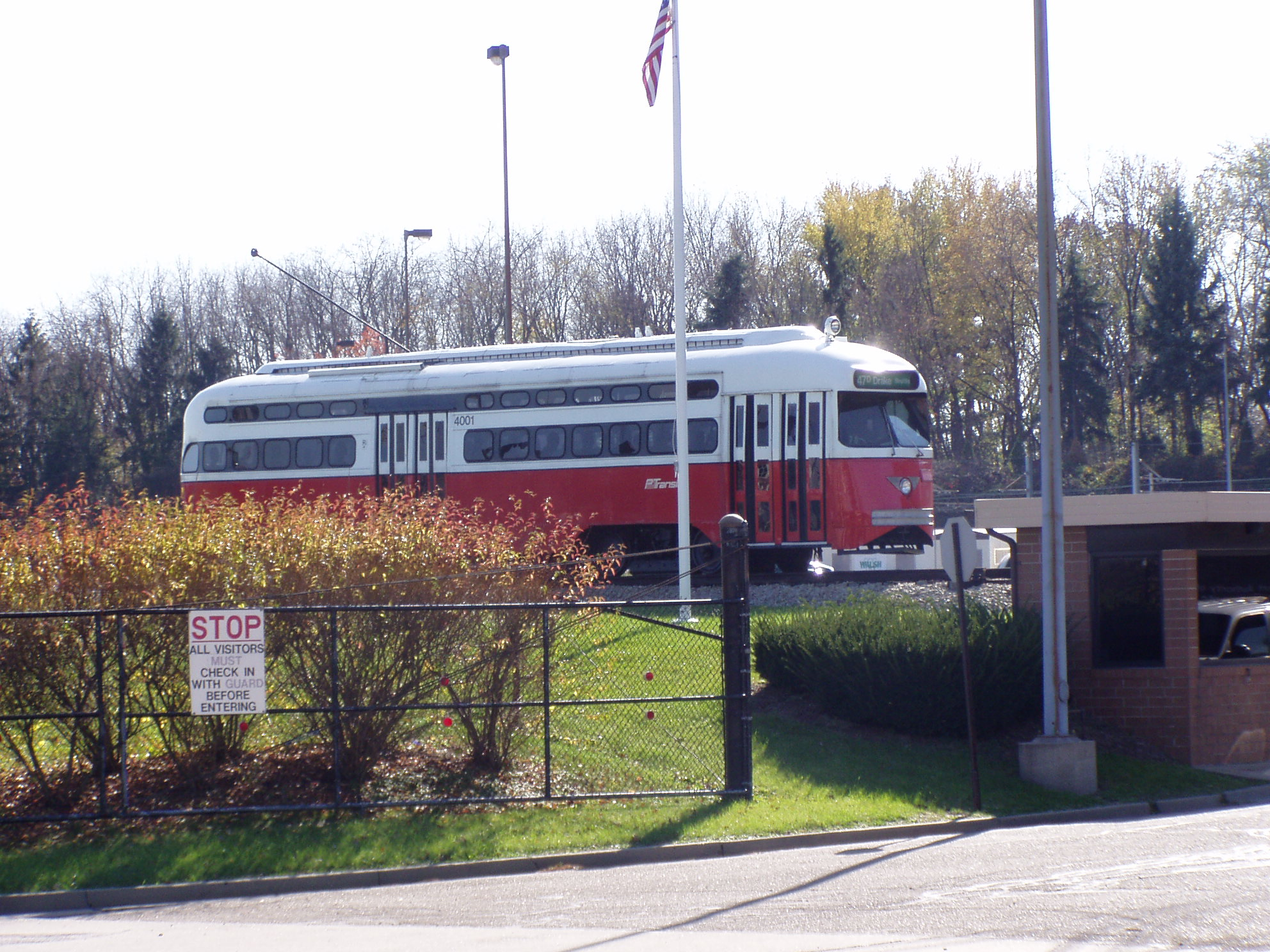 Pittsburgh PCC 4001 as a static display in front of the South Hills Village depot, 2004. See File:PAT PCC 4001 display SHV jeh.jpg for sunny side.